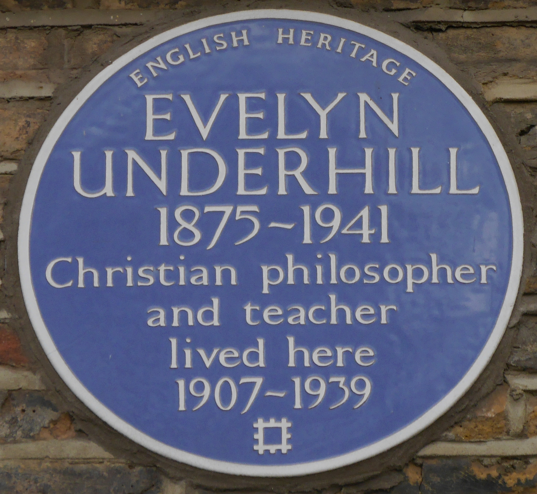 Evelyn Underhill 50 Campden Hill Square blue plaque